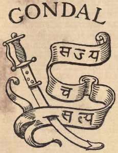 Coat of Arms of the Indian Princely State of GondalThakur Saheb of.... Arms: A belt and sword with the word “Gondal” at the top. Motto: Sajyam Cha Satyam (Ready and True).